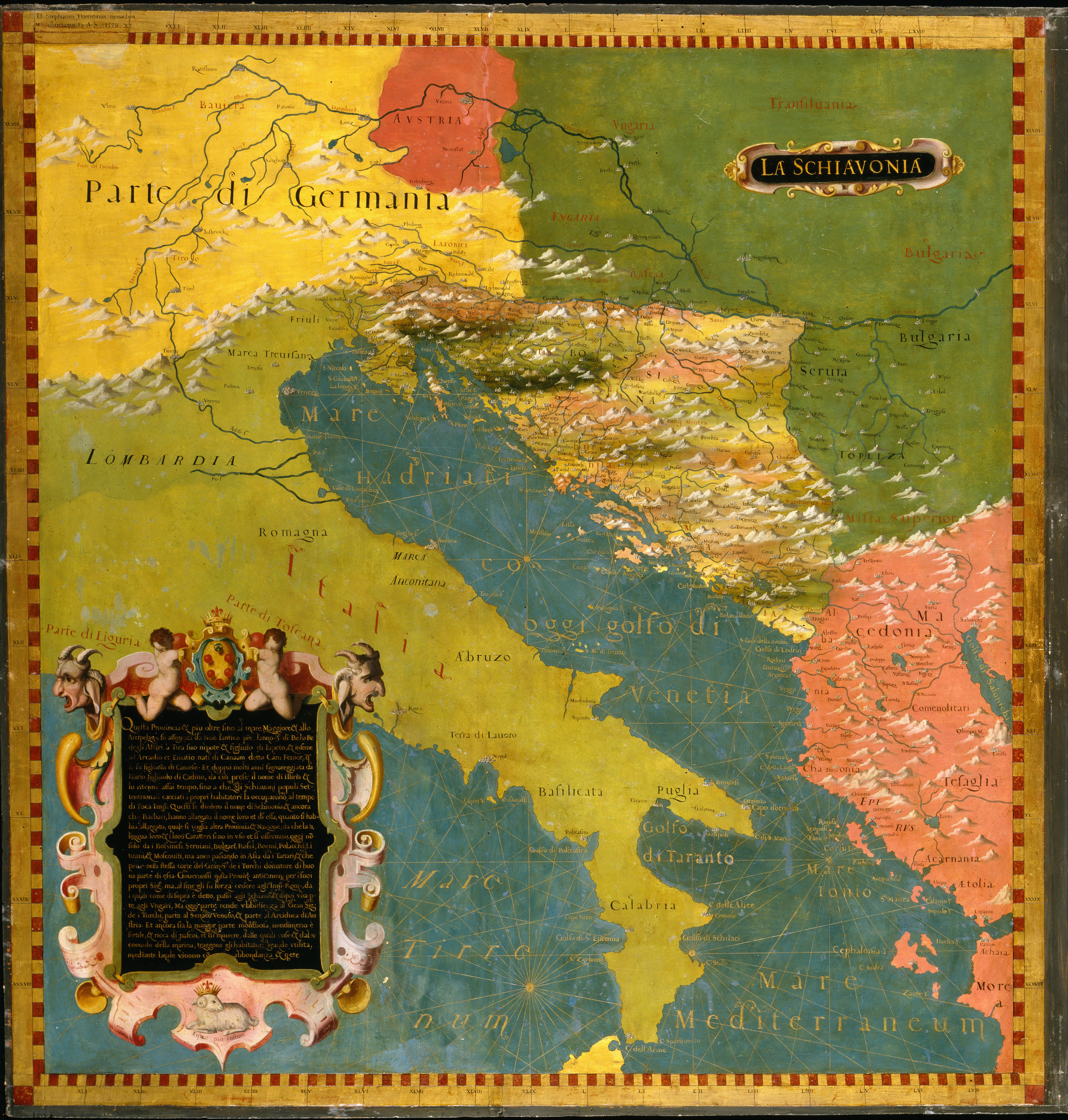 The 5th Map of Europe from Ptolemy's Geography